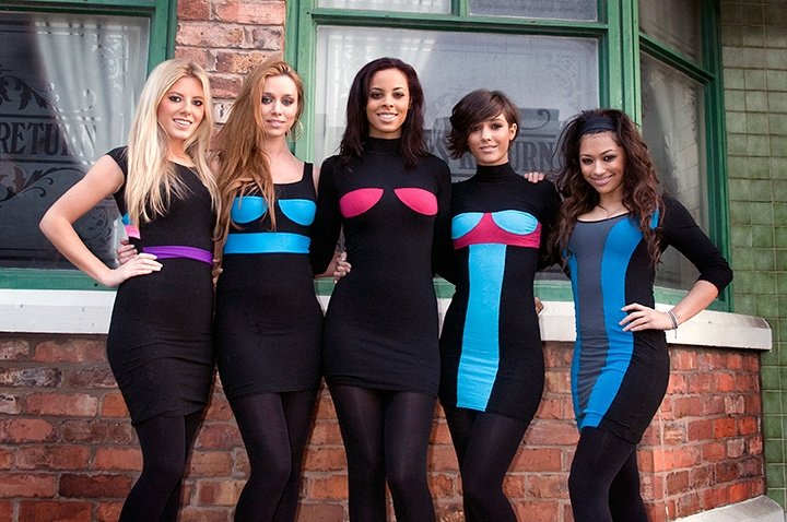 The Saturdays play Real Radio's launch party on the set of Coronation Street at Granada TV studios Thursday 02 April 09. From left: Mollie King, Una Healy, Rochelle Wiseman, Frankie Sandford and Vanessa White